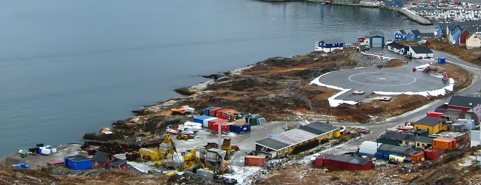 Qaqortoq Heliport. The photo is a detail from one of the photos used for making this Qaqortoq panorama: File:Qaqortoq 2008-10-28.jpg. Noise reduced with Noiseware Std. Ed.